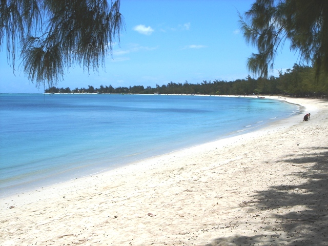 Public Beach in Mont Choisy, Mont Choisy.